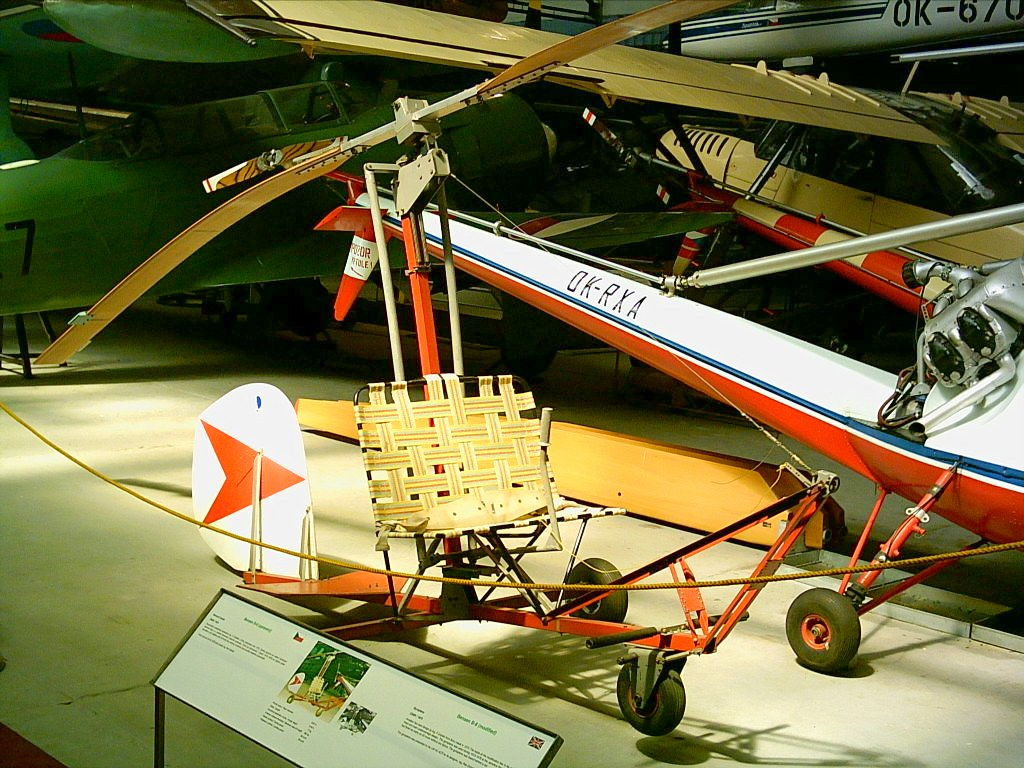 Aerotechnik A-70 Autogyro, Kbely museum, Prague, Czech Republic